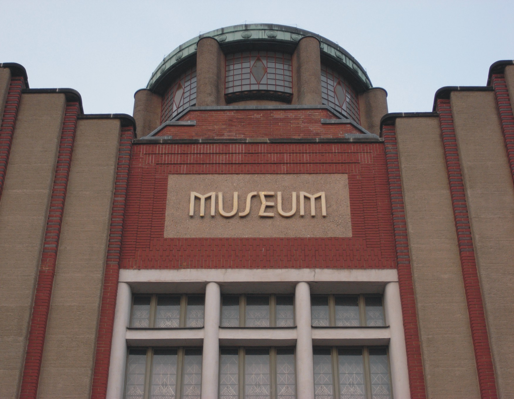 Hradec Králové - Museum of Eastern Bohemia